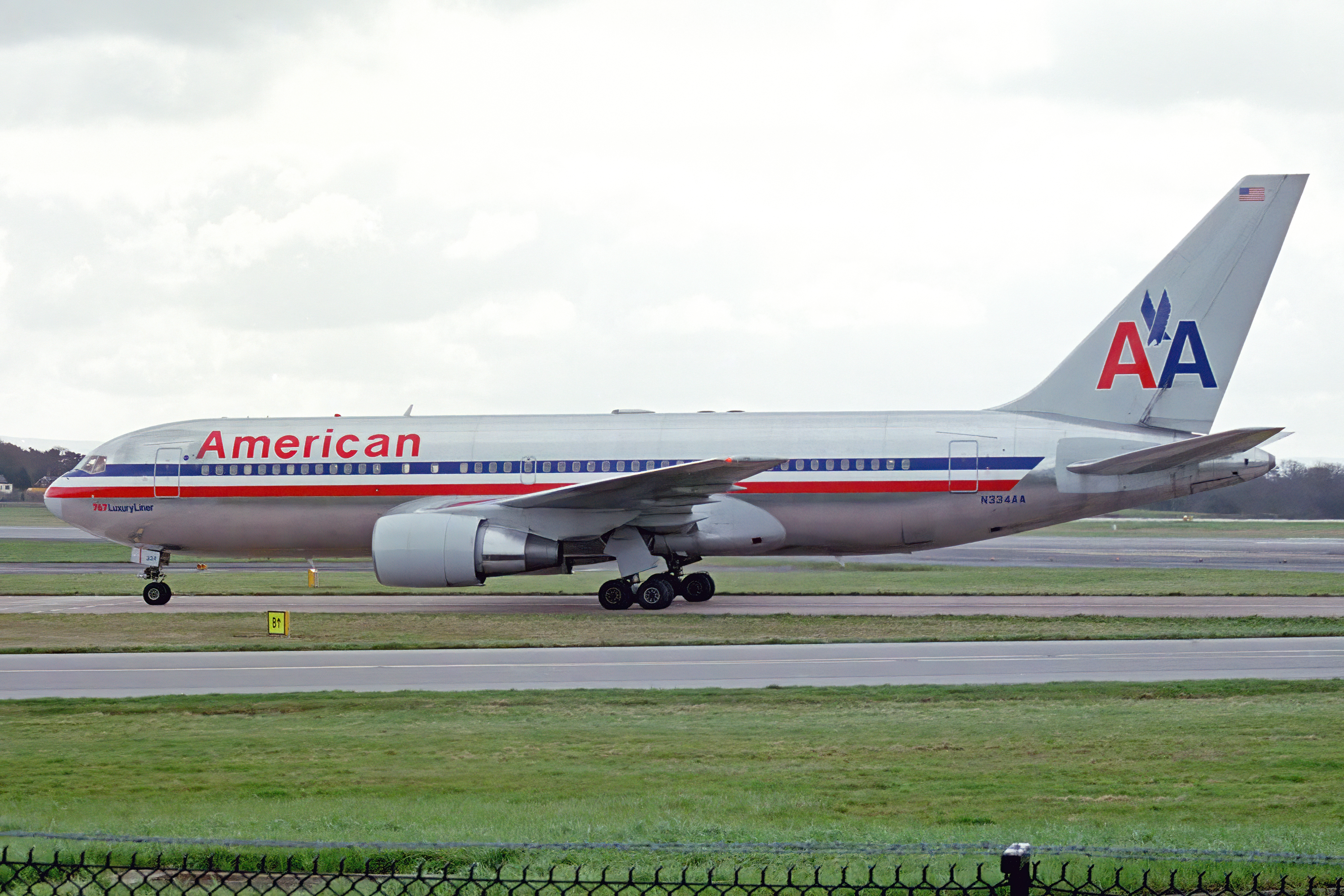 N334AA, the Boeing 767-200 that was hijacked in the September 11, 2001 attacks as American Airlines Flight 11, taxiing at Manchester Airport in April 2001, five months before the attacks.